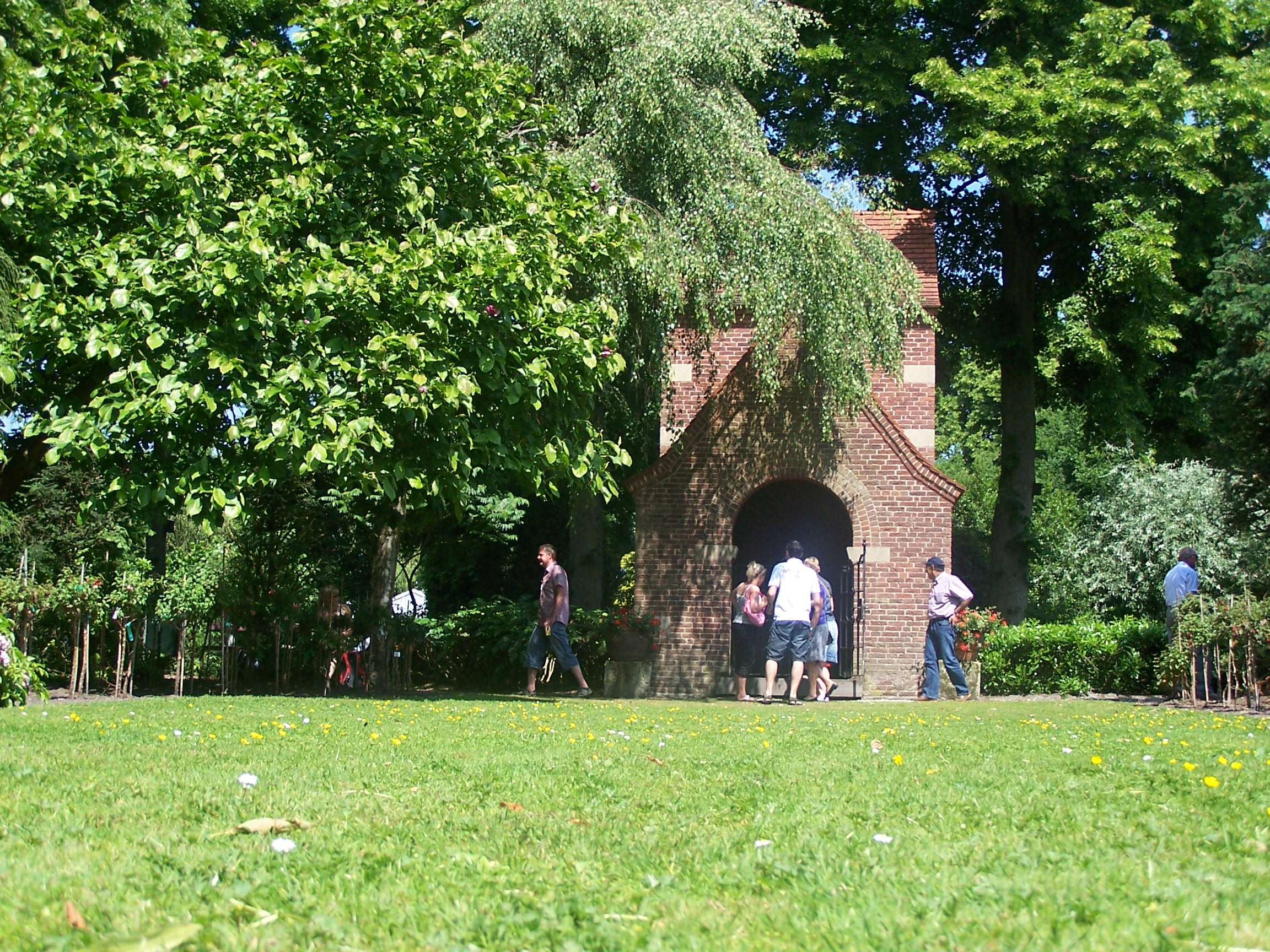 OpenStreetMap (Info) Castle 'Bouvigne', Breda Part of the German garden.